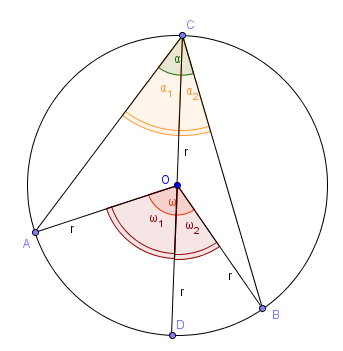 Inscribed angle case 2